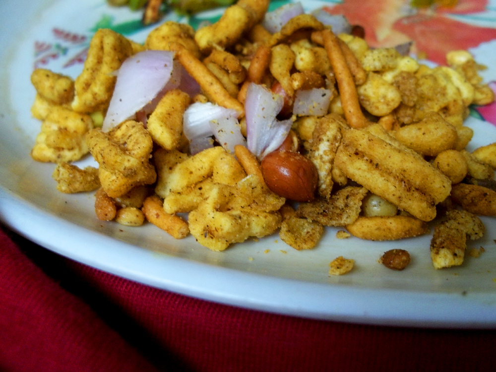 Chenachur/Chanachur, an Indian snacks.